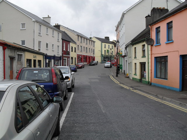 Old Church Street, Manorhamilton, near to Cluainin, Lurganboy and Tullyskeherny, Leitrim, Ireland. Old Church Street - in the centre of Manorhamilton.